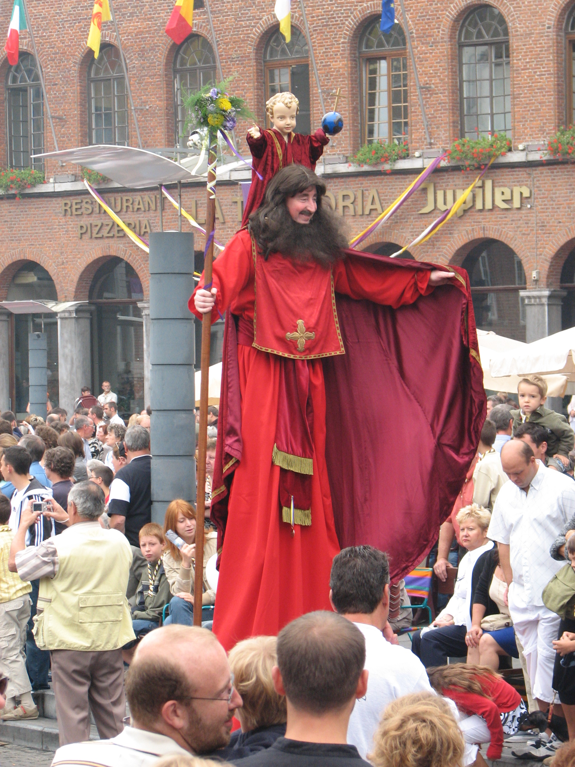 StChristophe Flobecq Ath en 2007